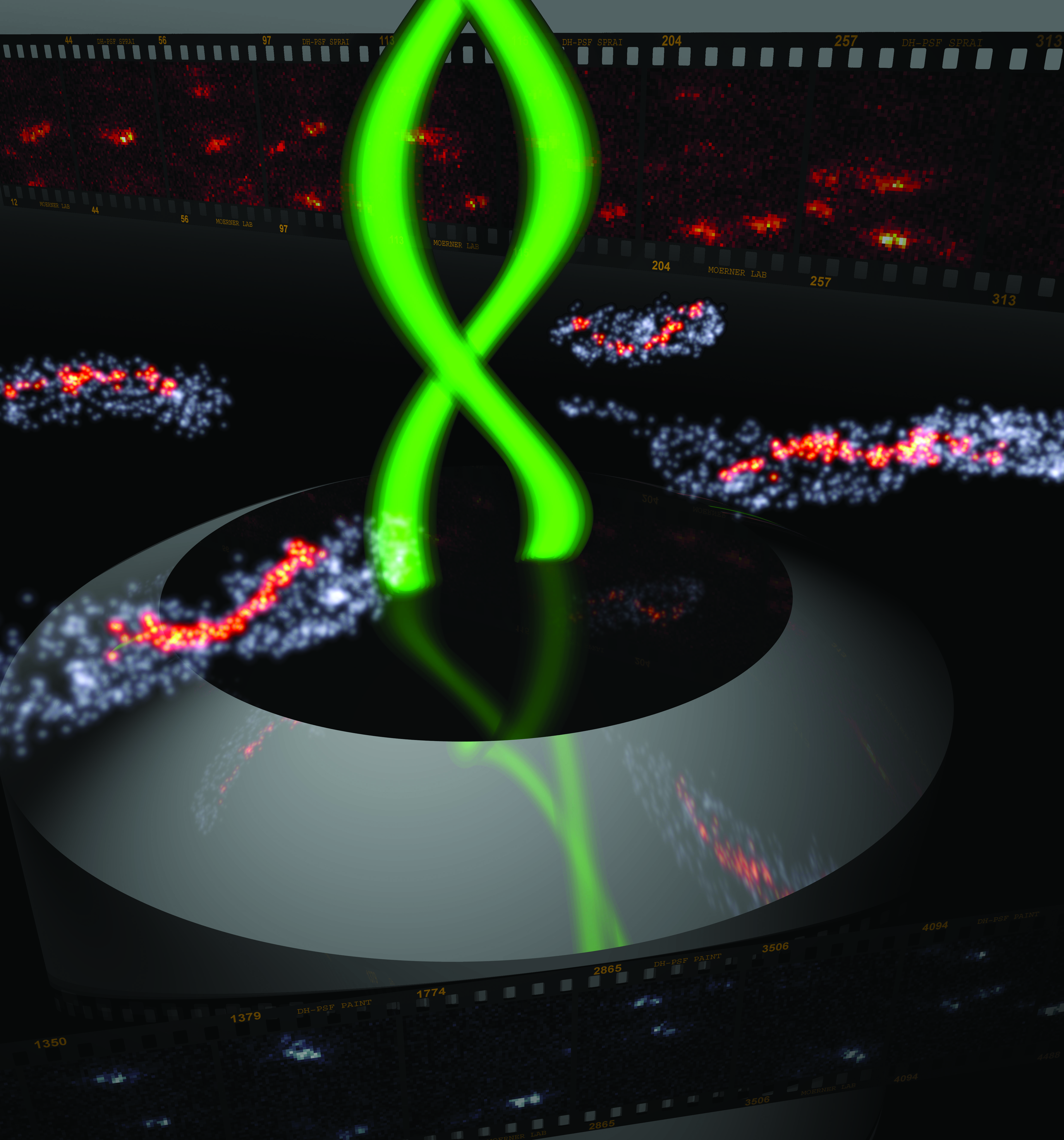 This image shows 3D super-resolution imaging of Caulobacter crescentus bacteria cell surfaces (gray) and a labeled protein (CreS, orange-red) obtained using the double-helix single-molecule active control microscopy technique. For details, see Matthew D. Lew*, Steven F. Lee*, Jerod L. Ptacin, Marissa K. Lee, Robert J. Twieg, Lucy Shapiro, and W. E. Moerner (*equal contributions), “Three-dimensional super-resolution co-localization of intracellular protein superstructures and the cell surface in live Caulobacter crescentus,” Proc. Nat. Acad. Sci. (USA) 108, E1102-E1110 (2011) and 108, 18577-18578 (2011)